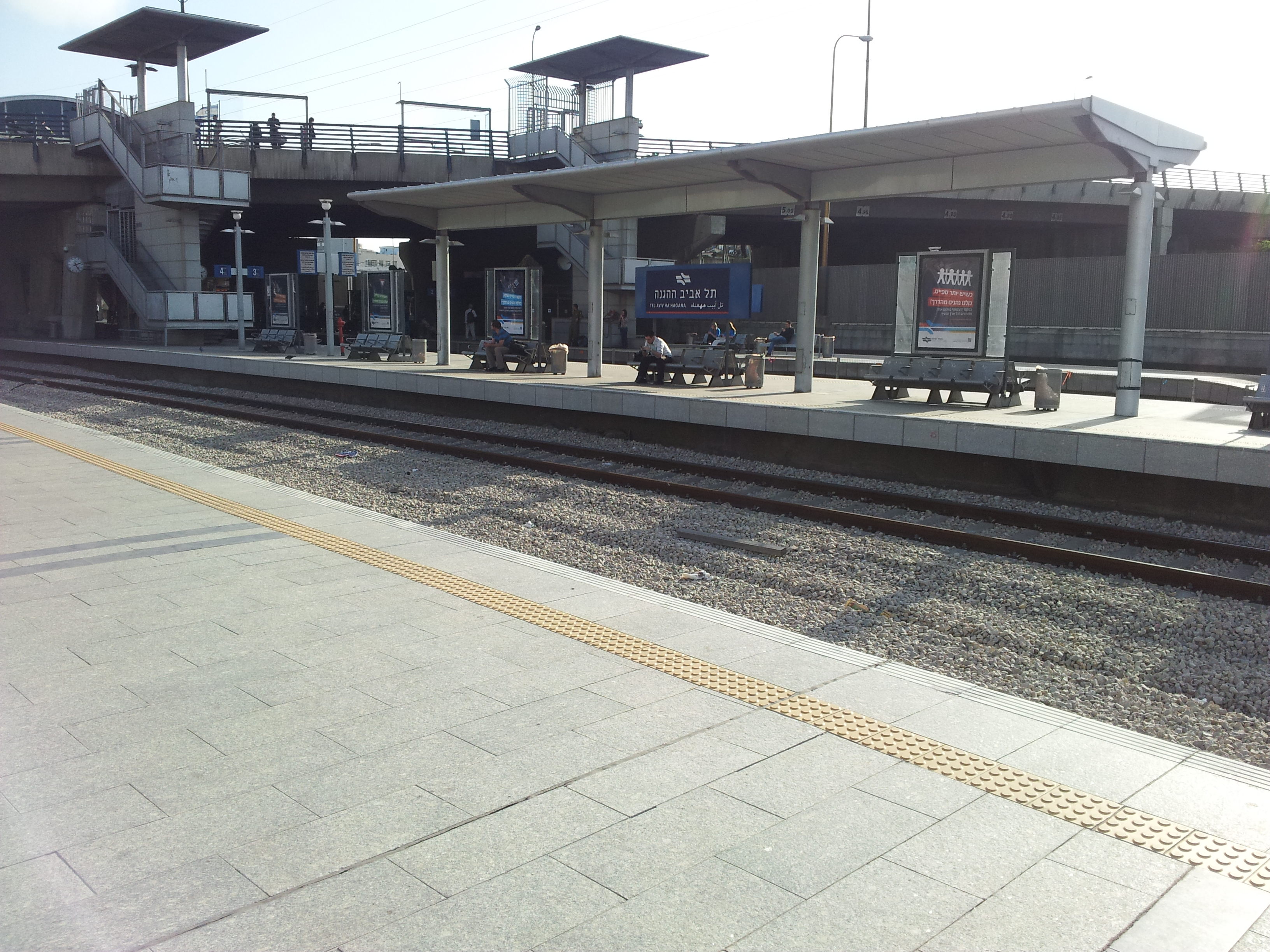 Tel Aviv HaHagana train station